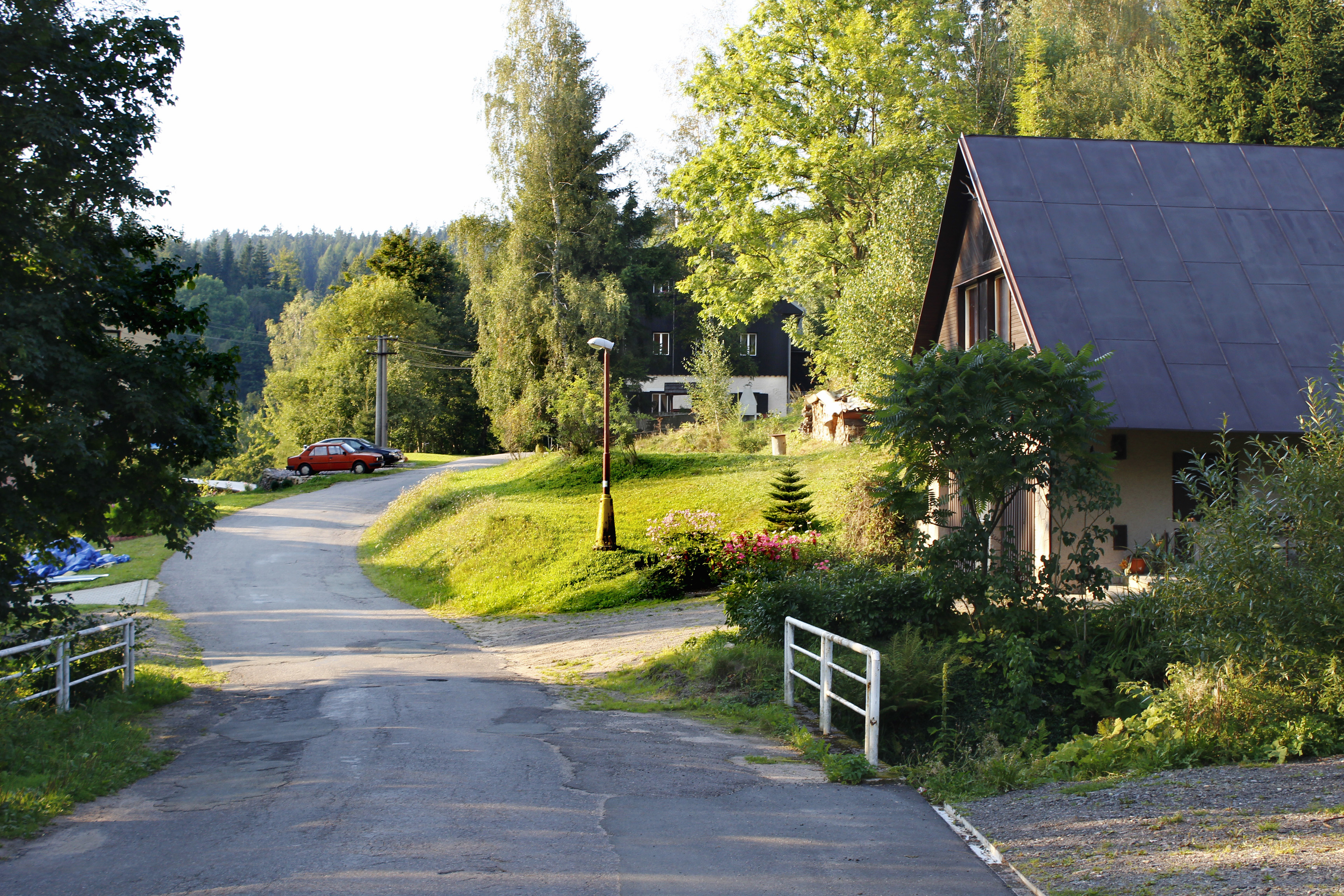 East part of Zdobnice, Czech Republic